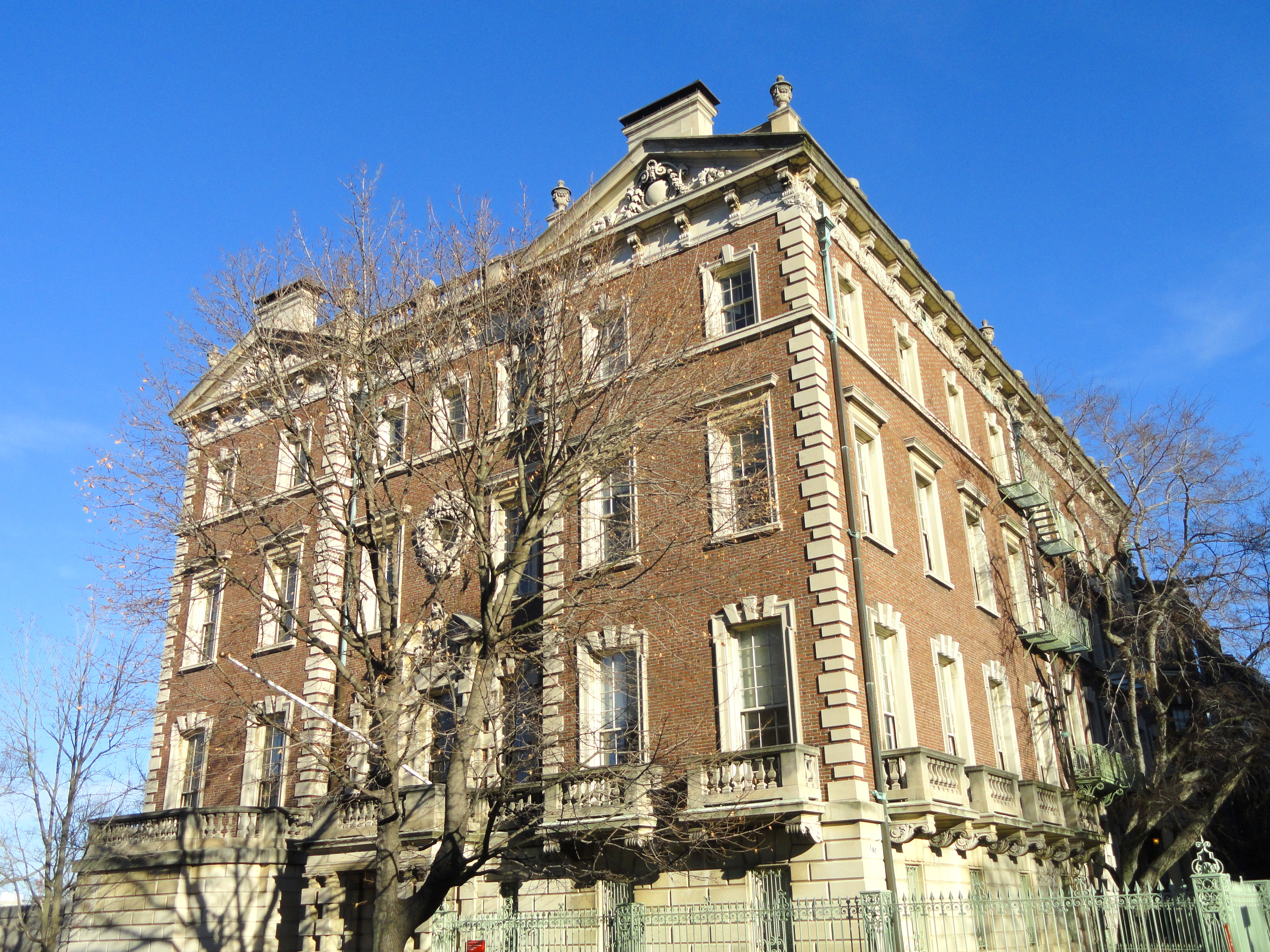 Kilachand Honors College building - Boston University, Boston, Massachusetts, USA.